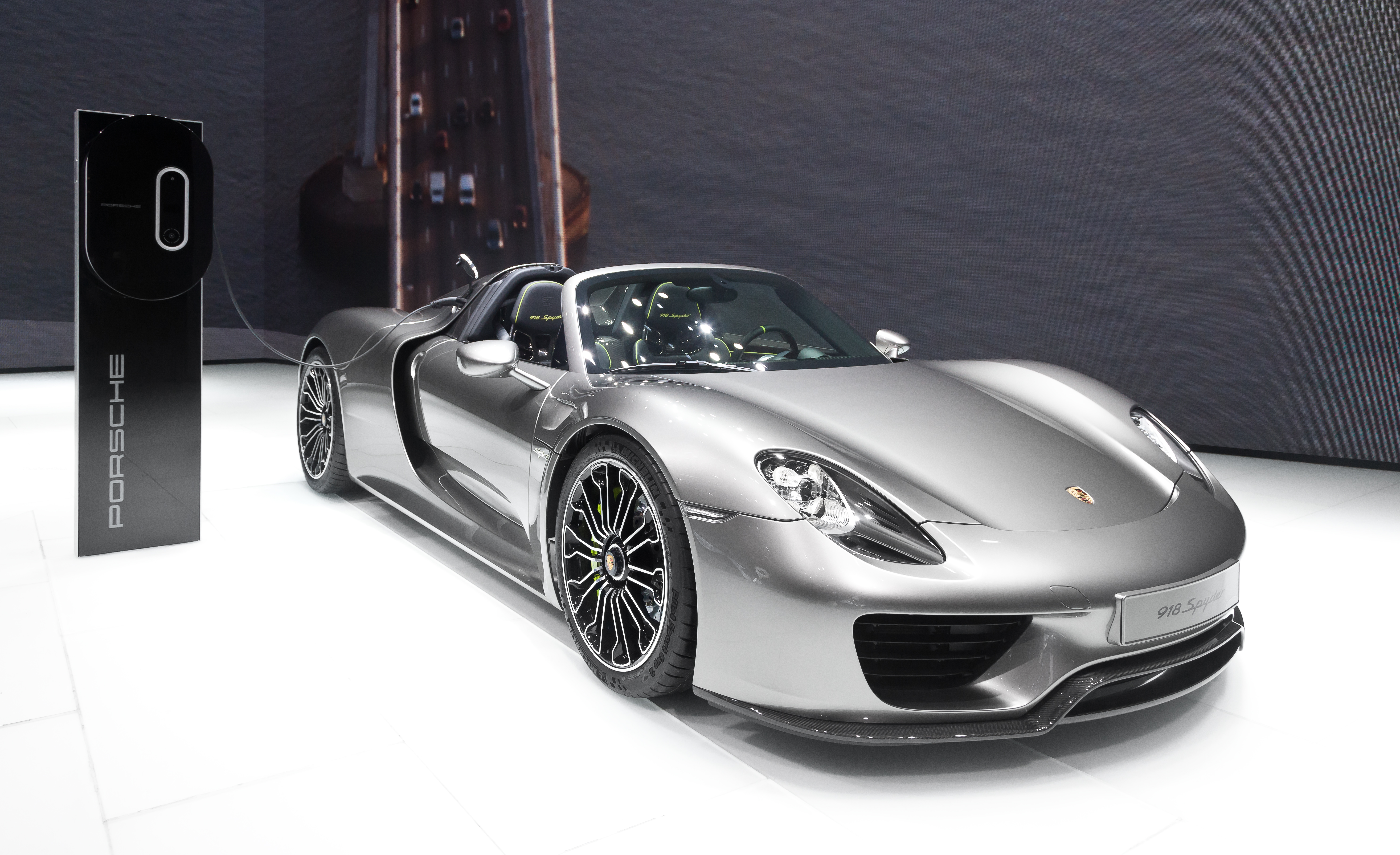 Porsche 918 Spyder at Frankfurt Motor Show 2013 in Frankfurt, Germany